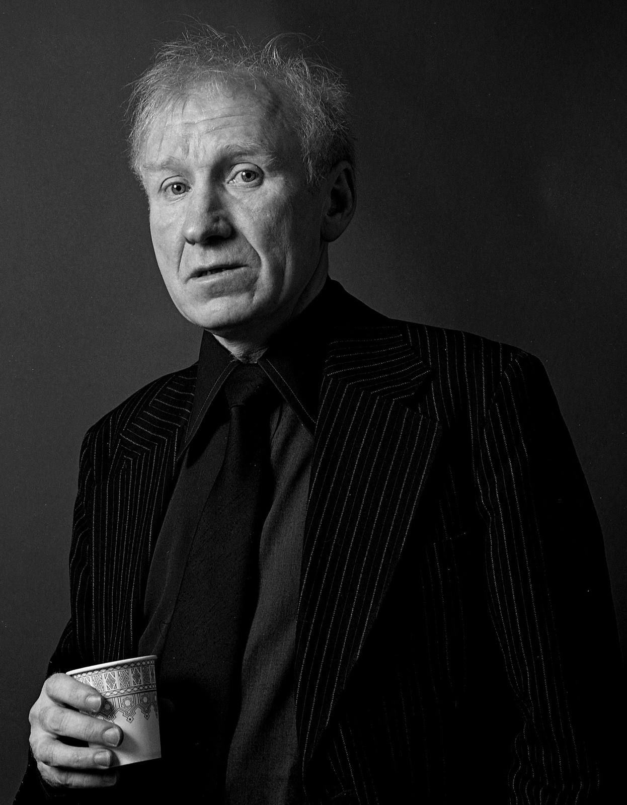 Portrait of Eddie Linden taken by Granville Davies circa 1985